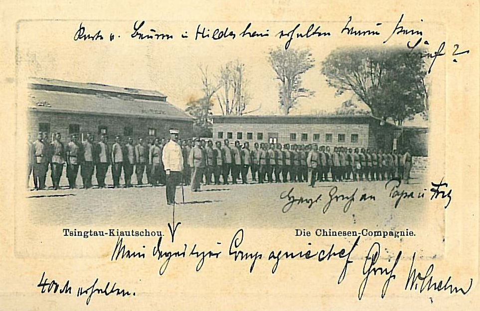 historical view of Qingdao